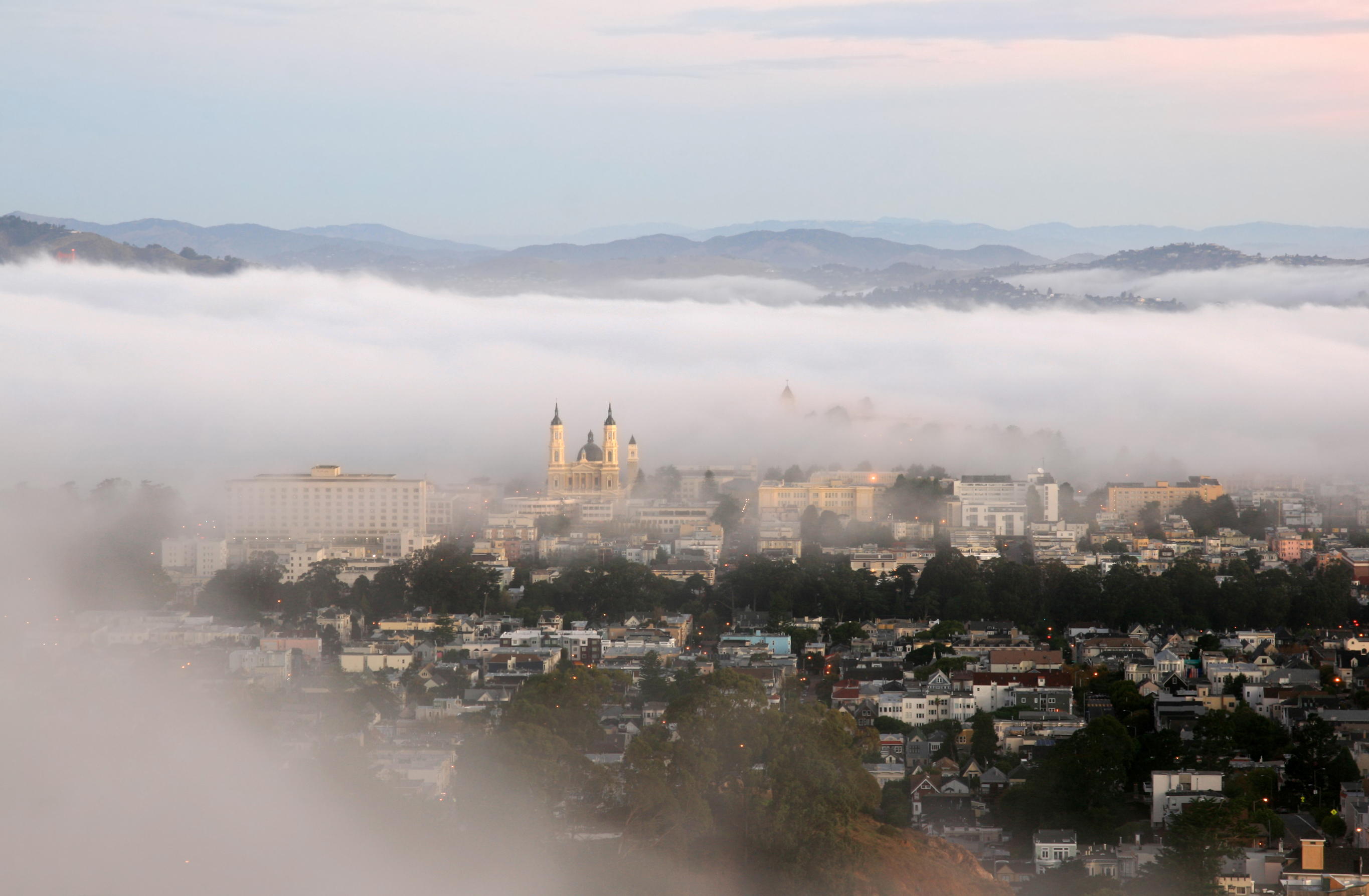 Early morning fog over San Francisco. North tower of Golden Gate Bridge visible near top left.